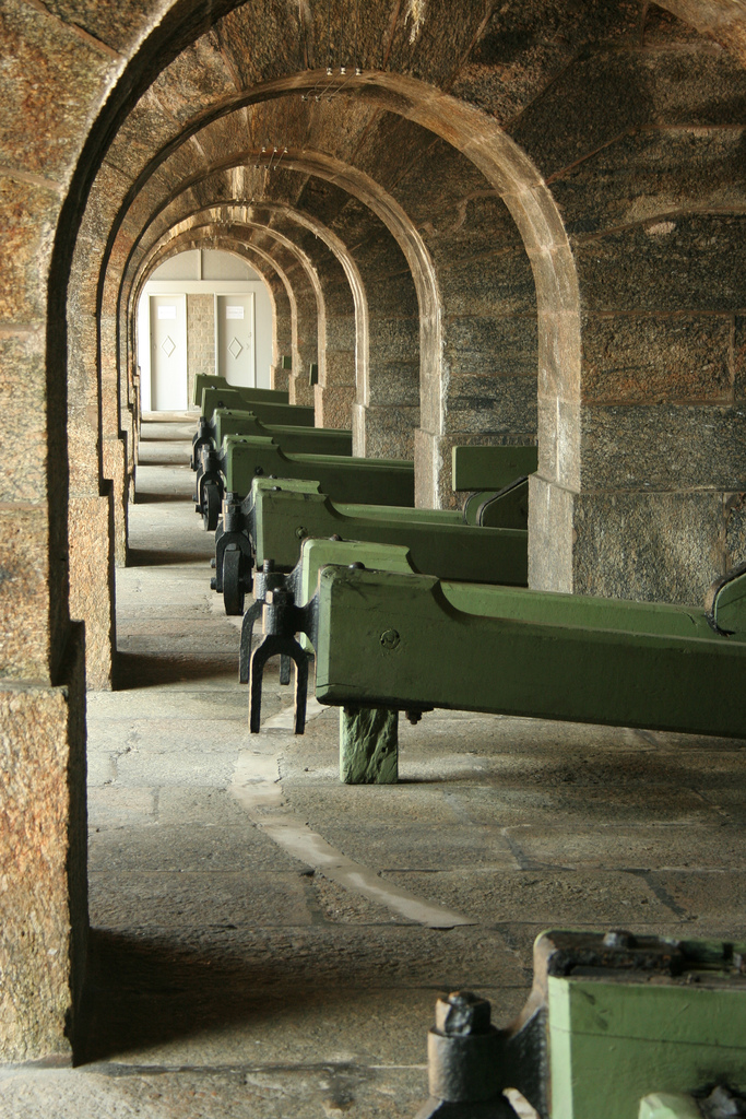 Cannons room of Santa Cruz Fortress in Niterói, Brazil